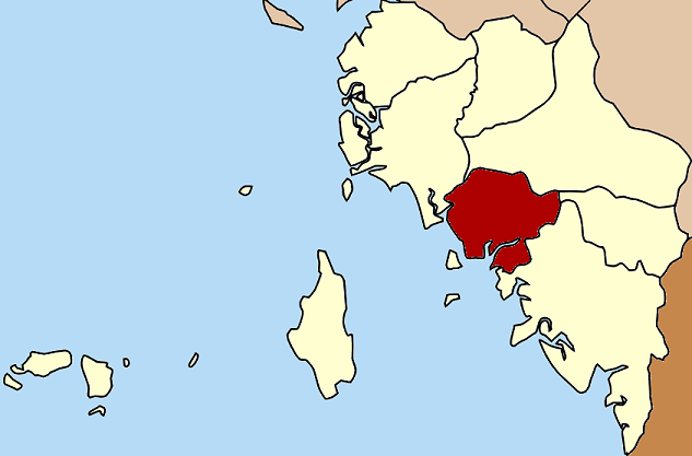 Map of Satun Province, Thailand, highlighting the district Tha Phae (อำเภอท่าแพ)